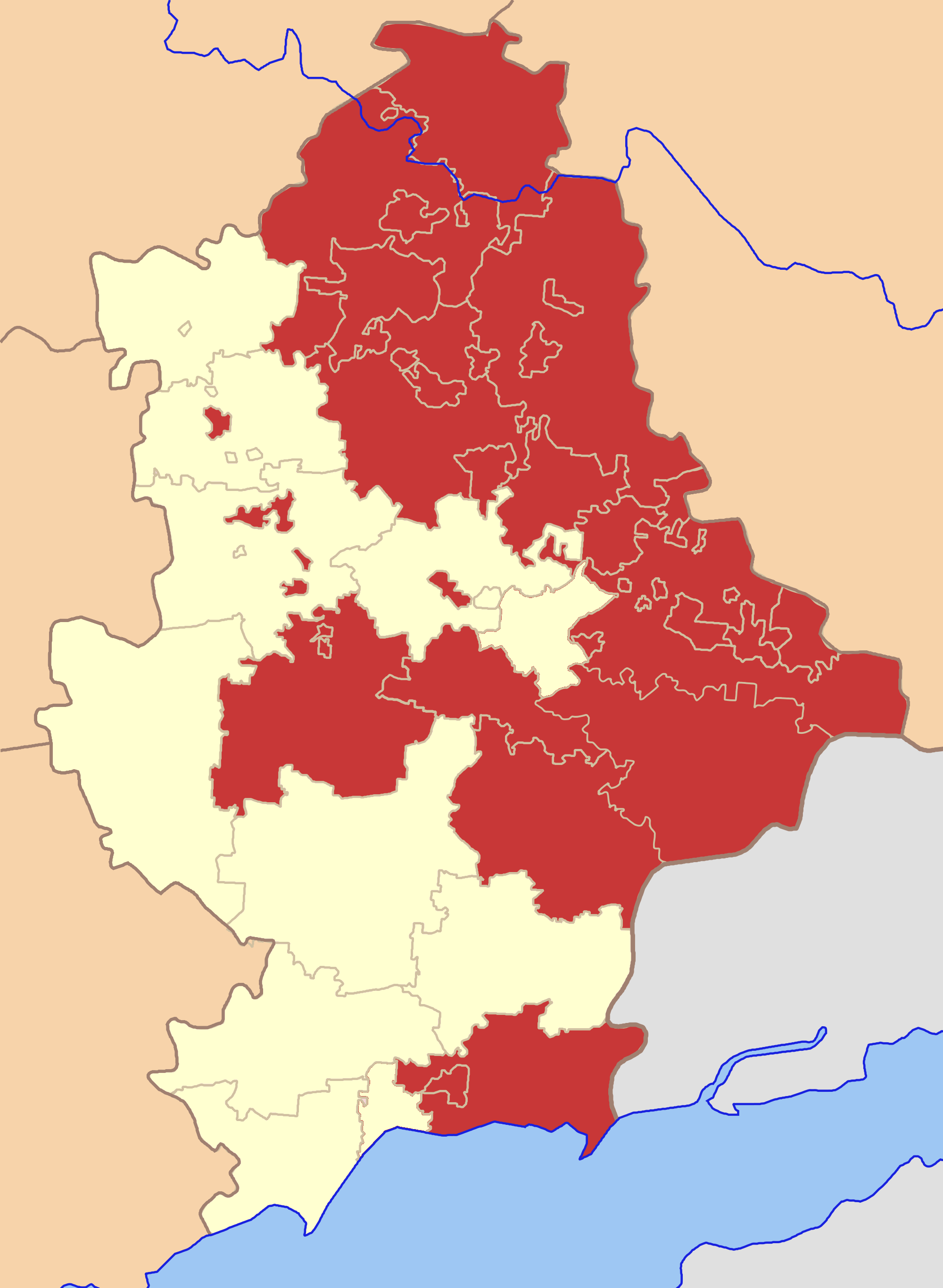 Donetsk Oblast regional occupations